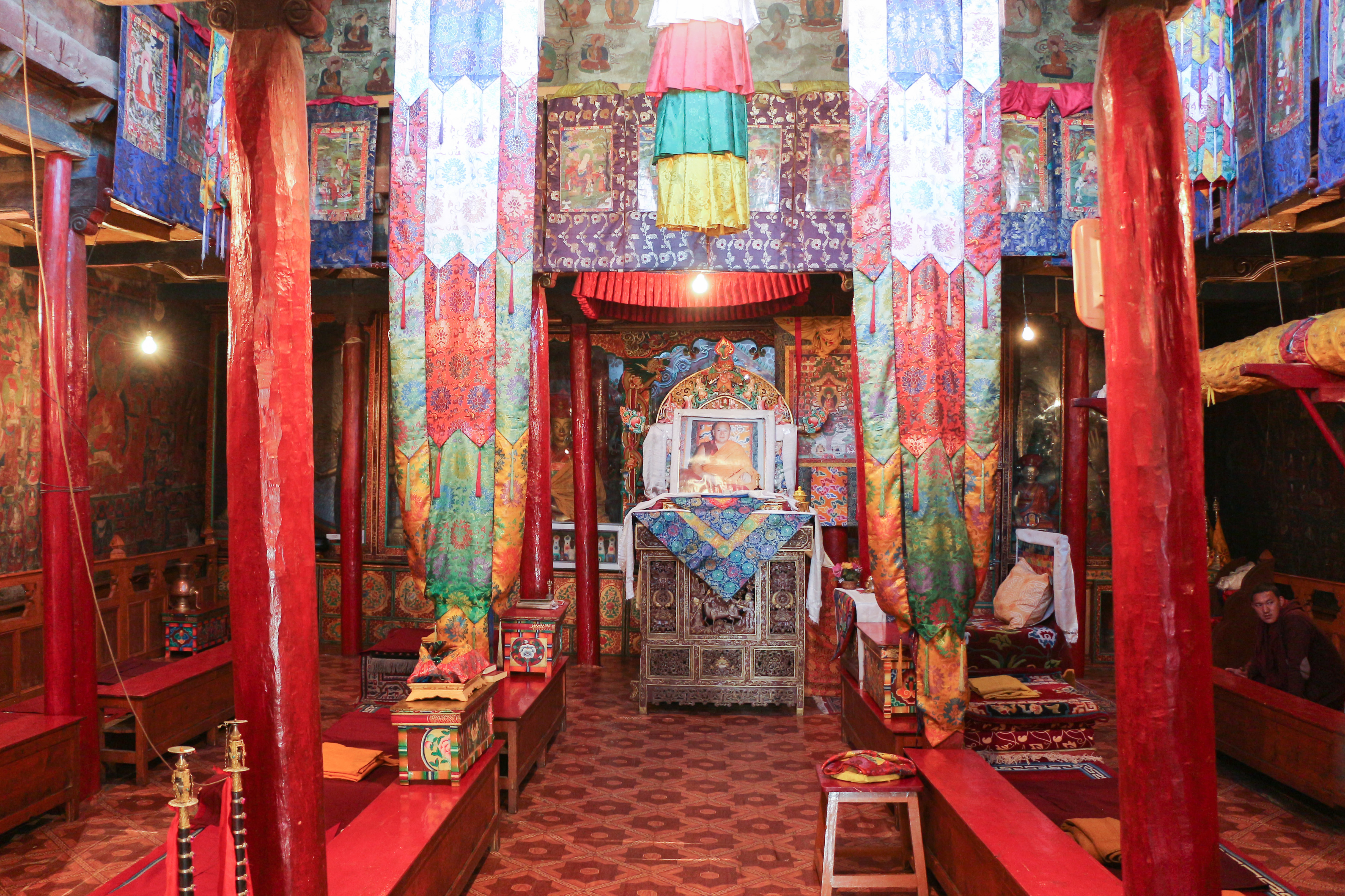 Phyang Monastery, Ladakh, India